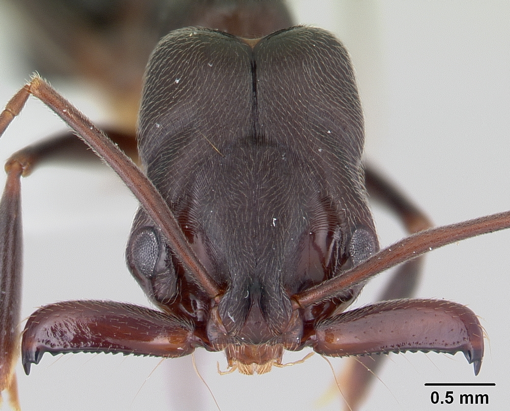 Head view of ant Odontomachus troglodytes specimen casent0178263.